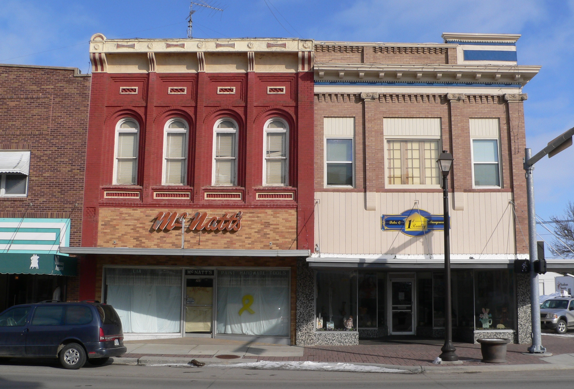 Buildings on east side of 200 block of North Main Street in Wayne, Nebraska. The block is part of the Wayne Commercial Historic District, which is listed in the National Register of Historic Places. On the corner, at right, is the Larson & Kuhn's building at 201 N. Main, built in Neoclassical Revival style ca. 1905. The red building to its left is the McNatt Hardware building at 203 N. Main, built in Italianate style ca. 1890. Both buildings are contributing properties in the historic district.